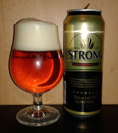 Warka Strong Dwusłodowy (.50 liter can + unrelated glass)